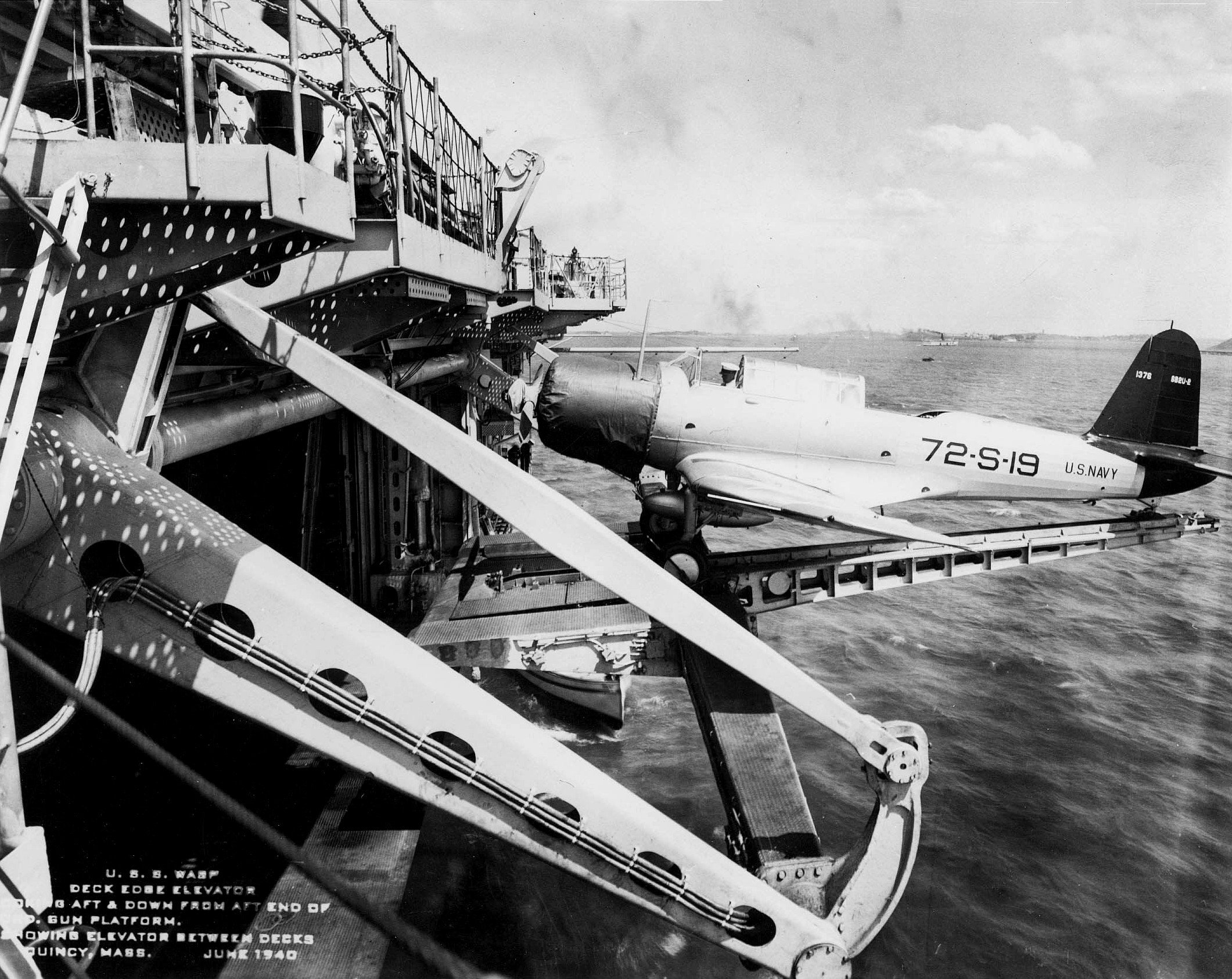 A U.S. Navy Vought SB2U-2 Vindicator (BuNo 1376) from scouting squadron VS-72 pictured on the deck edge elevator of the aircraft carrier USS Wasp (CV-7) at Quincy, Massachusetts (USA), in June 1940. The elevator consisted of a platform for the front wheels and an outrigger for the tail wheel. The two arms on the sides moved the platform in a half-circle up and down between the flight deck and the hangar deck.